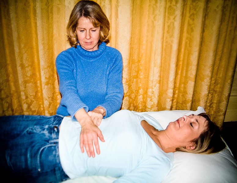 This image depicts a Reiki treatment in progress. Author: James Logan; Uploaded by Andy Beer with agreement of author and models.